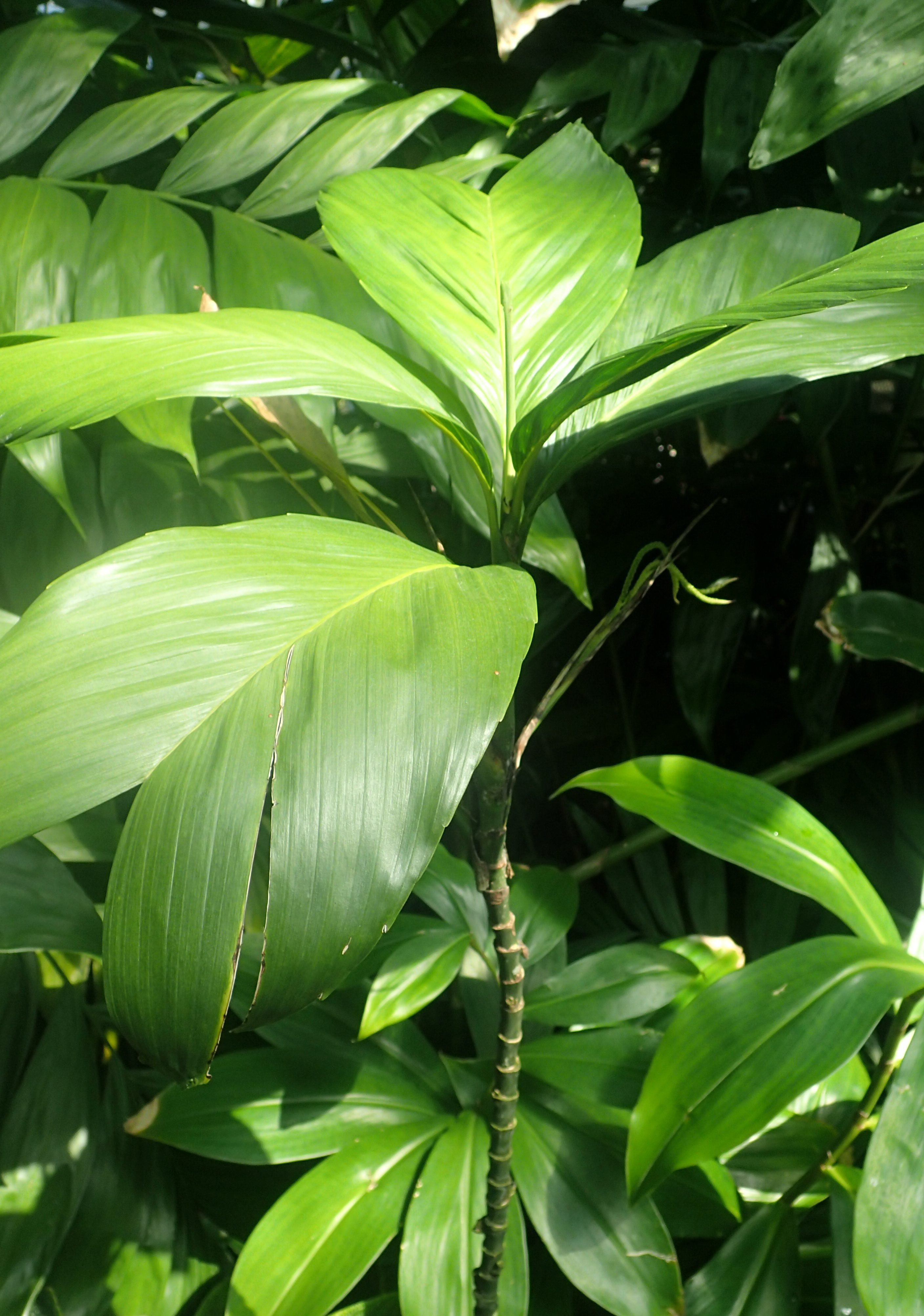 Chamaedorea geonomiformis in the Missouri Botanical Garden, St. Louis